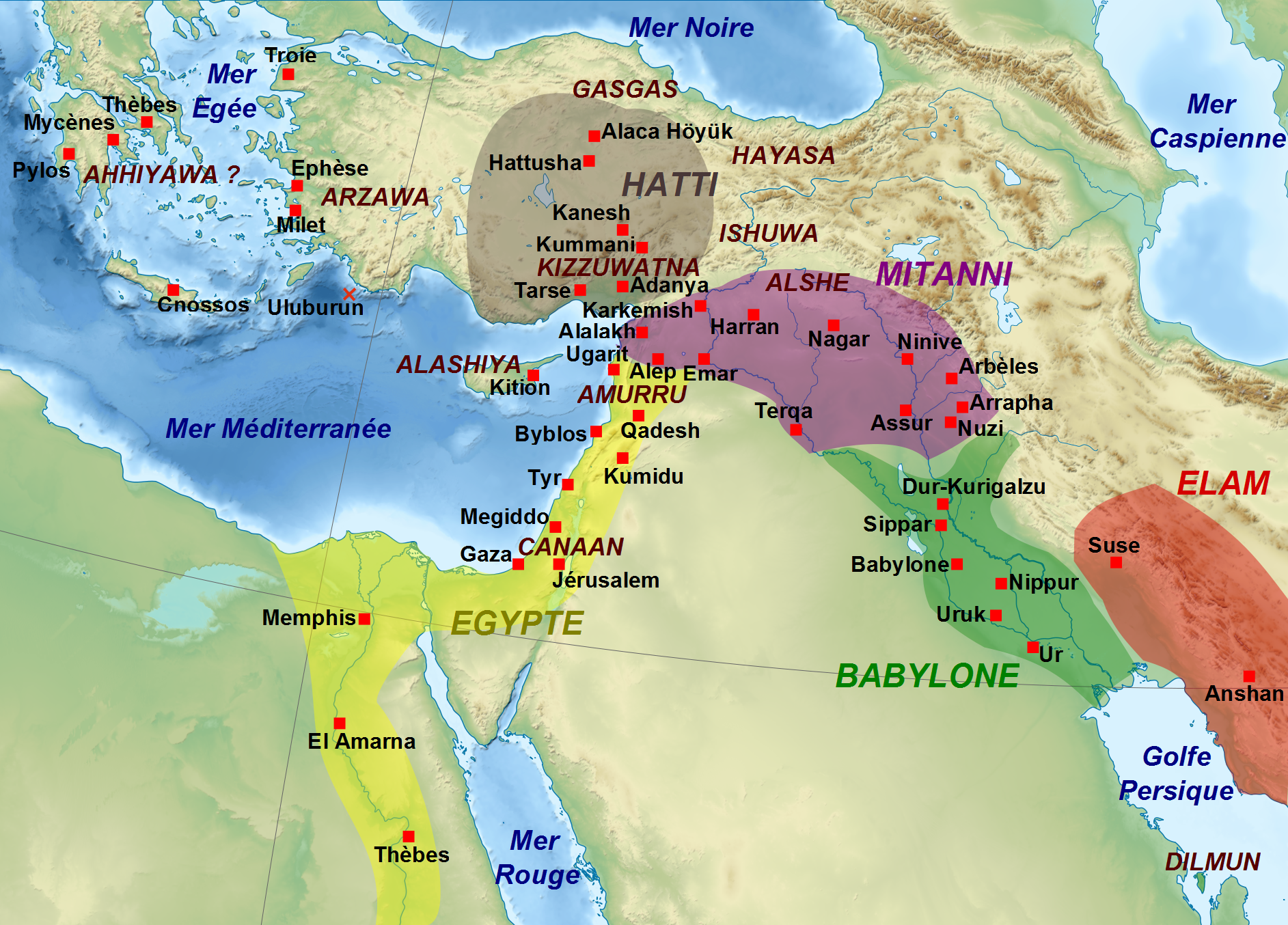 Map of the Middle East in the beginning of the Amarna letters period, the first half of the 14th century BC. The extension of the dominions of the great kingdoms is approximate. Remarks : the extension of the Arzawa is not shown because of its uncertainty, it may have covered the main part of Western Anatolia ; the Ahhiyawa are here supposed to be the "Mycaneans" ; the extension of Elam is very approximate.